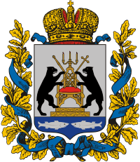 Novgorod gubernia (Russian empire), coat of arms